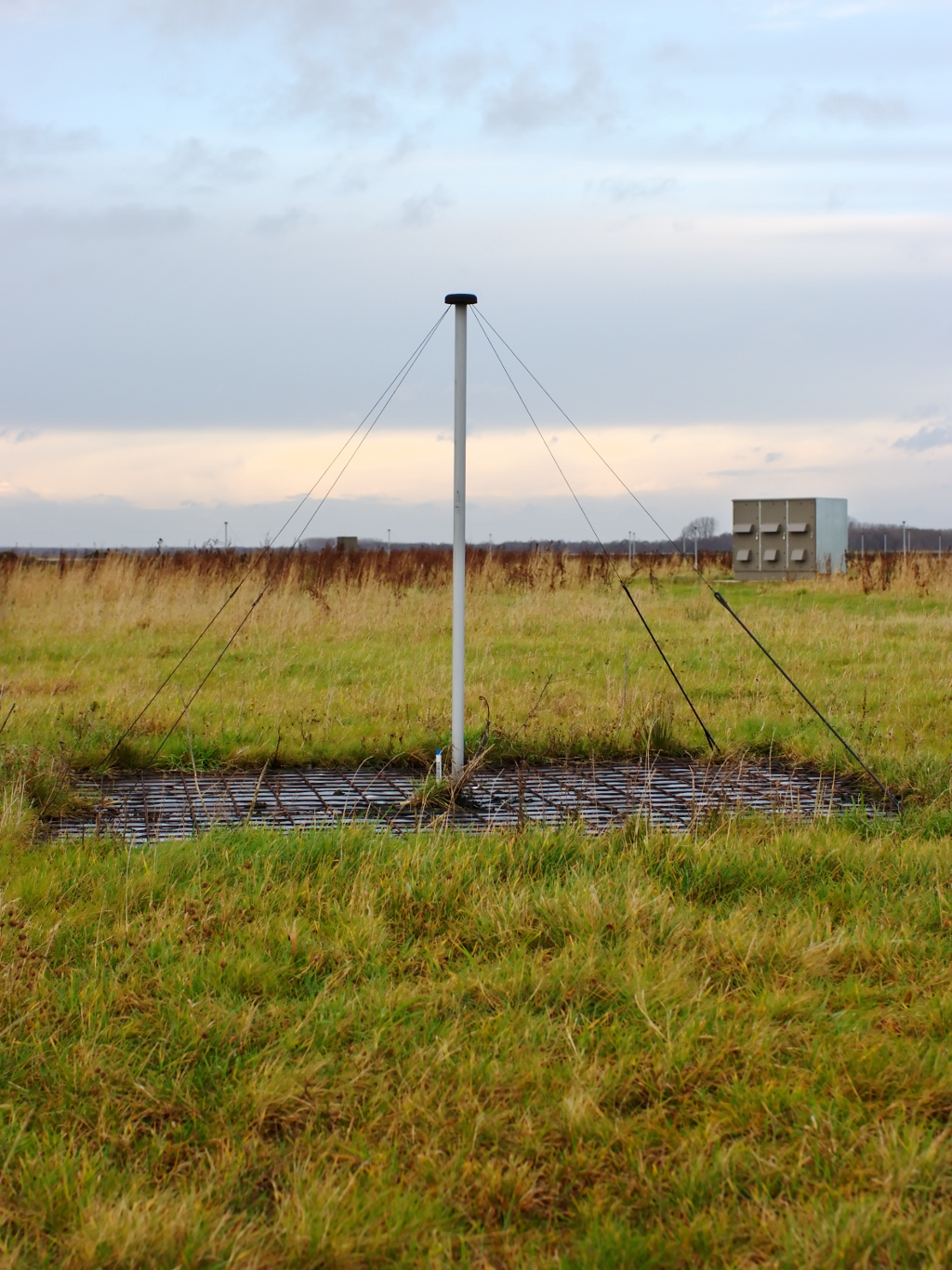 Photo showing a low-band antenna (LBA) of the Low-Frequency Array (LOFAR), an interferometric radio telescope build in Europe. In the right back of the antenna, a LOFAR cabin is visible that contains electronics. The full array consists of thousands of such antennas.